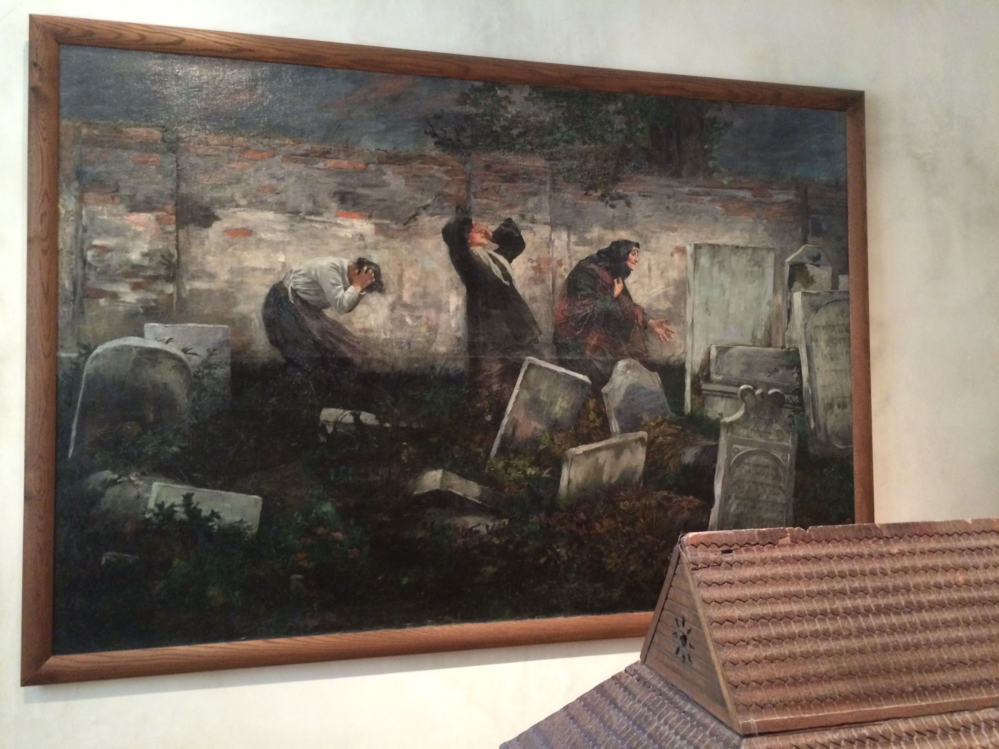 Jewish Cemetery, Samuel Hirszenberg (1892), Museum of Jewish Art and History (Musée d'art et d'histoire du Judaïsme)